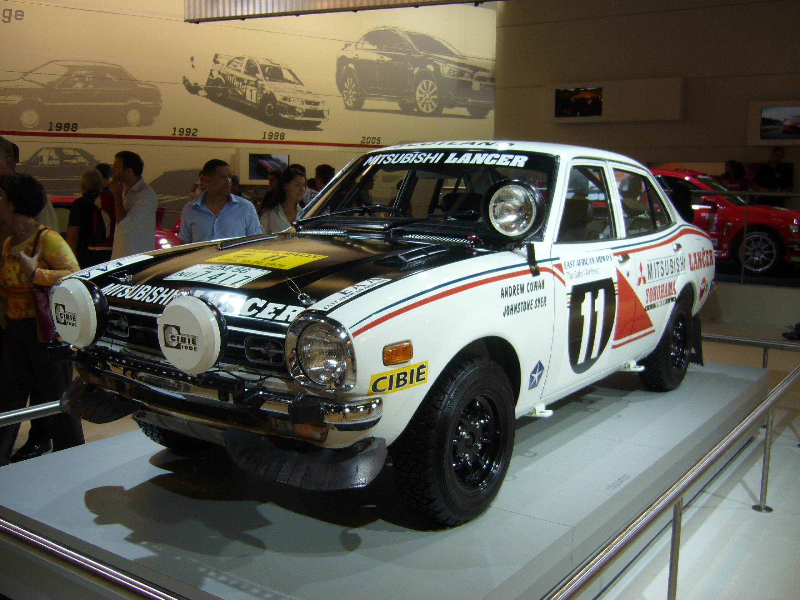 Mitsubishi Lancer 1500 Sédan Rallye